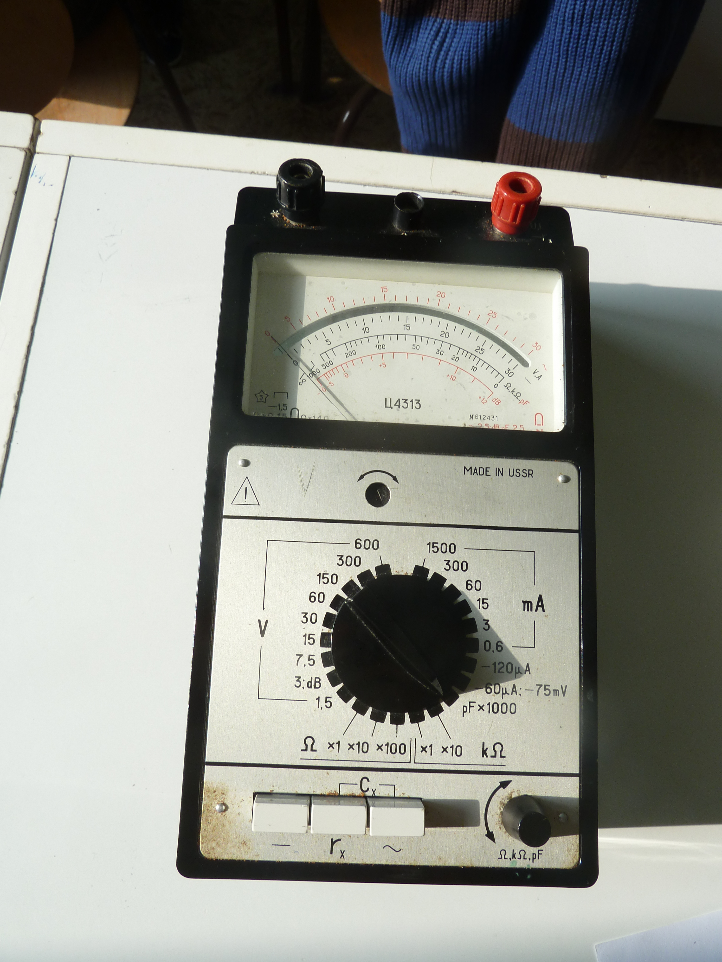 Gymnázium Budějovická, Prague – classroom No. 43 (physics laboratory)